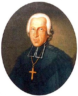 Franz Joseph Sigismund von Roggenbach, prince-bishop of Basel about 1782; Oil painting